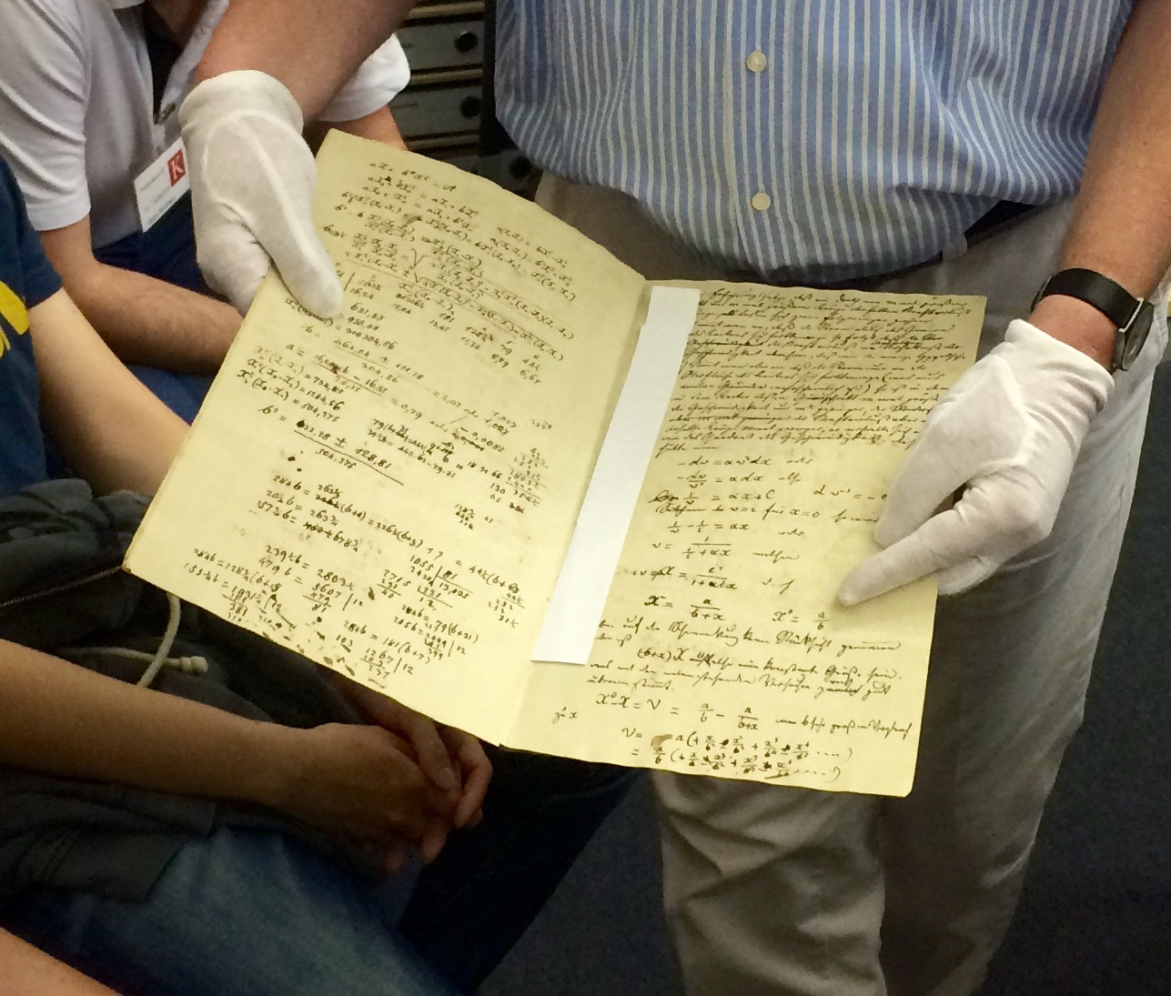 The first record of Ohm's law in Georg Simon Ohm's lab book, today at the archives of the Deutsches Museum.